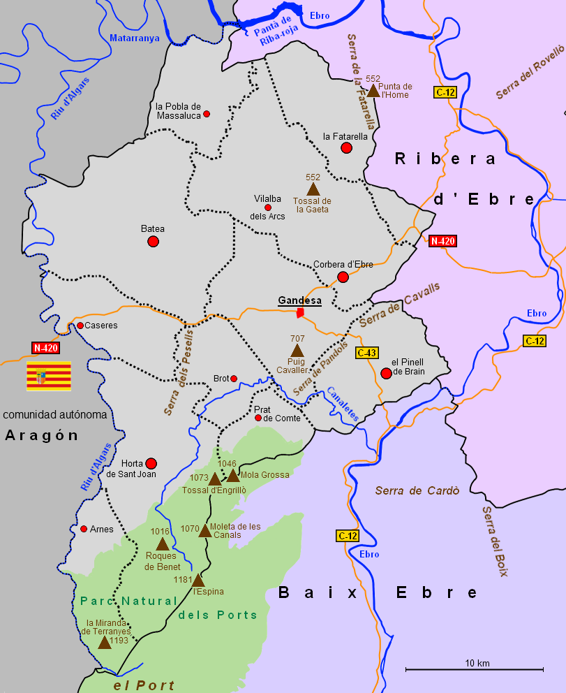 Map of the comarca Terra Alta, Catalonia, Spain